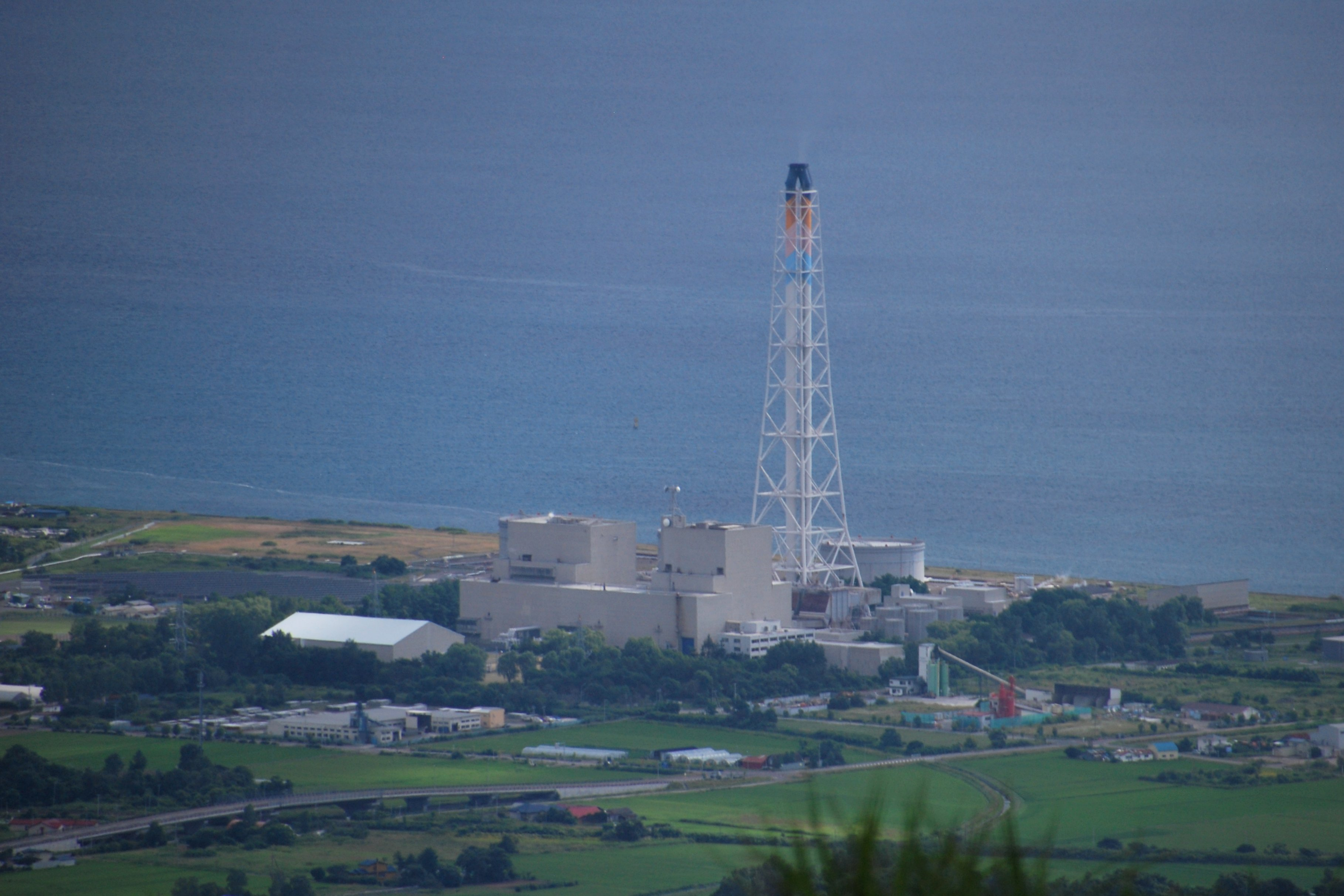 A view of Date Power Station from Mt. Usu in Hokkaido.